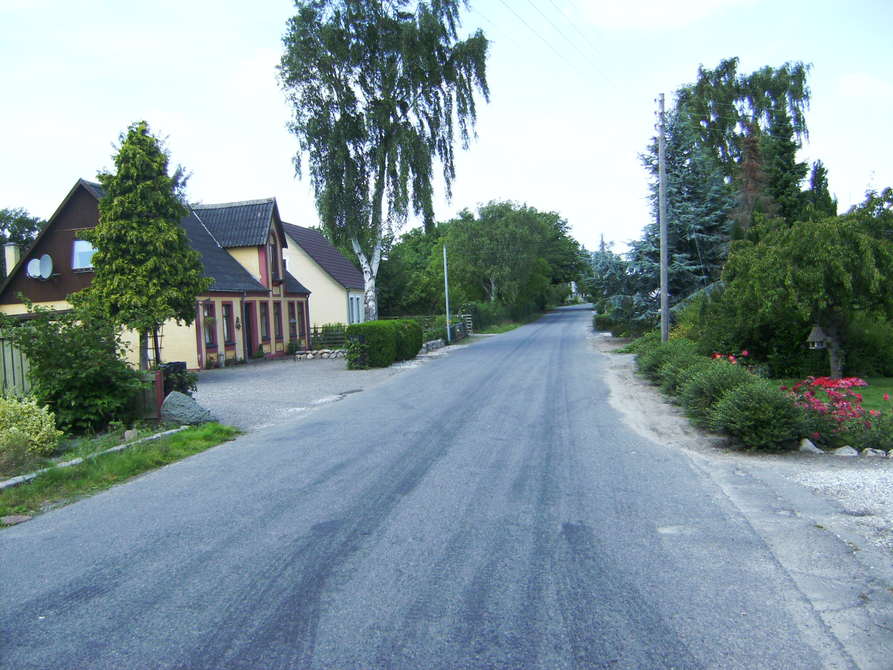 St. Musse is a village in Demark